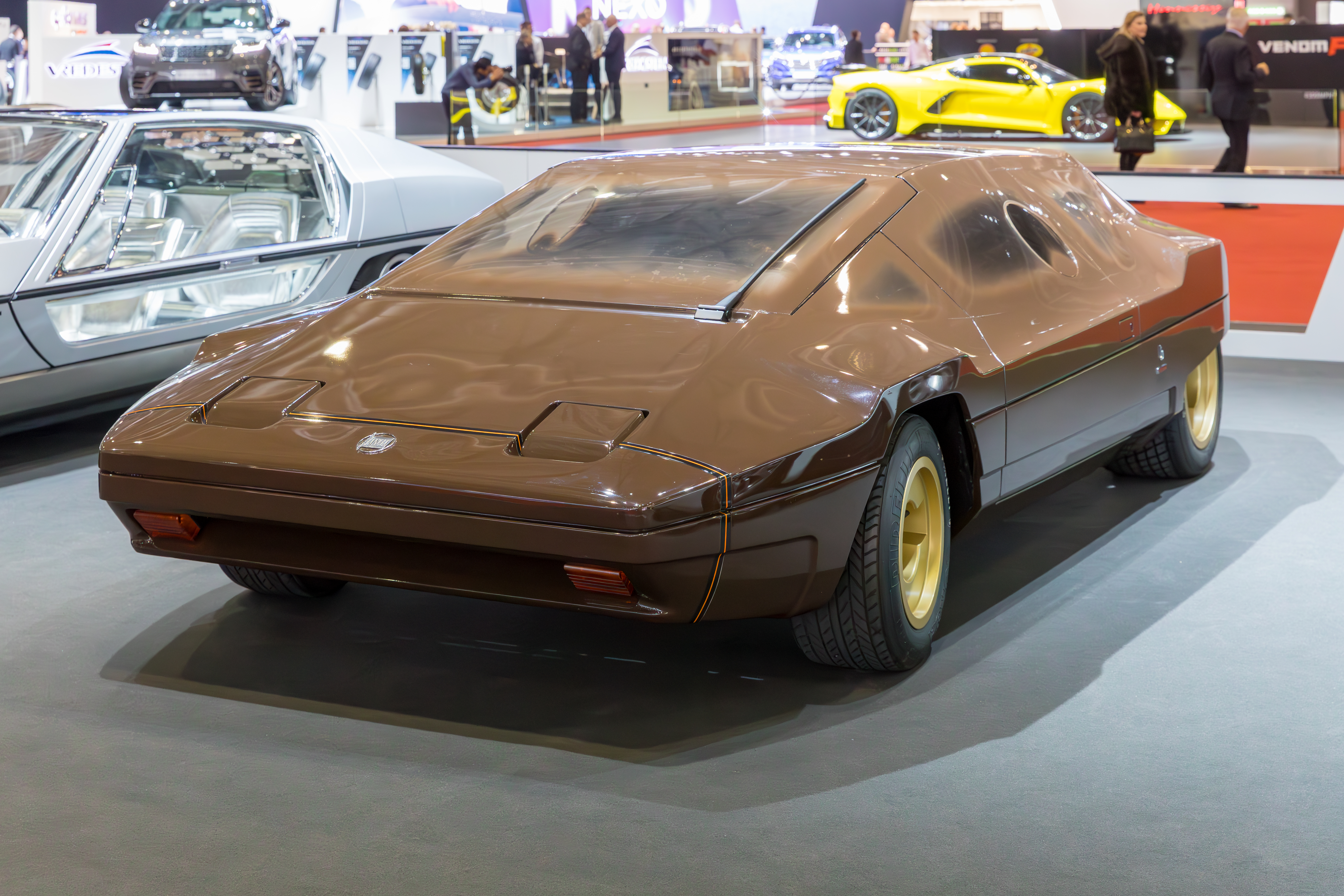 1978 Lancia Bertone Sibilo at 2018 Geneva International Motor Show.